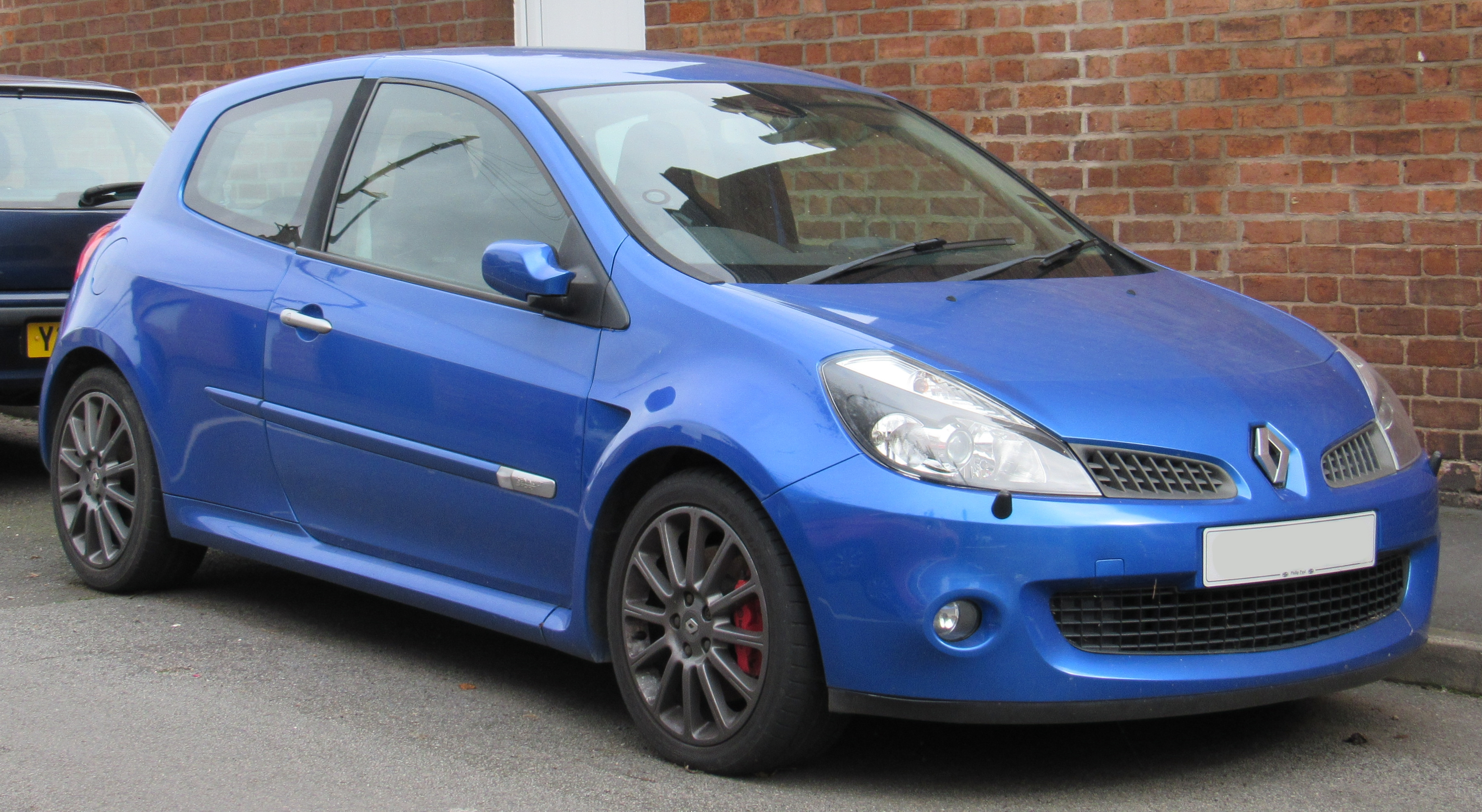 2008 Renault Clio Renaultsport 197 2.0 Front Taken in Leamington Spa